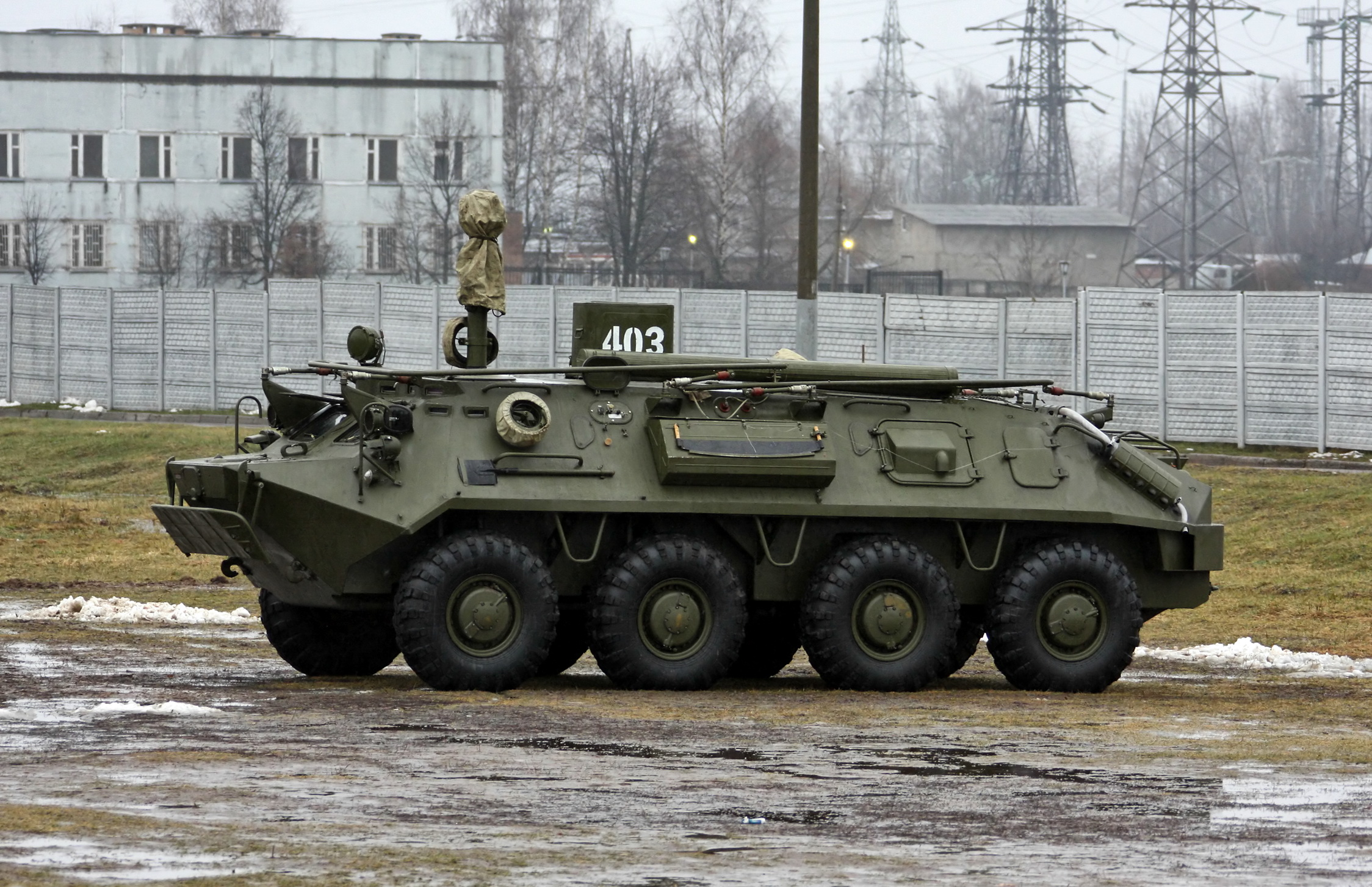 R-145BM «Chayka» — Russian command-staff vehicle (KShM), on base of the infantry fighting vehicle BTR-60PA, here: R-145BM of the 4th Independent guard tank brigade.